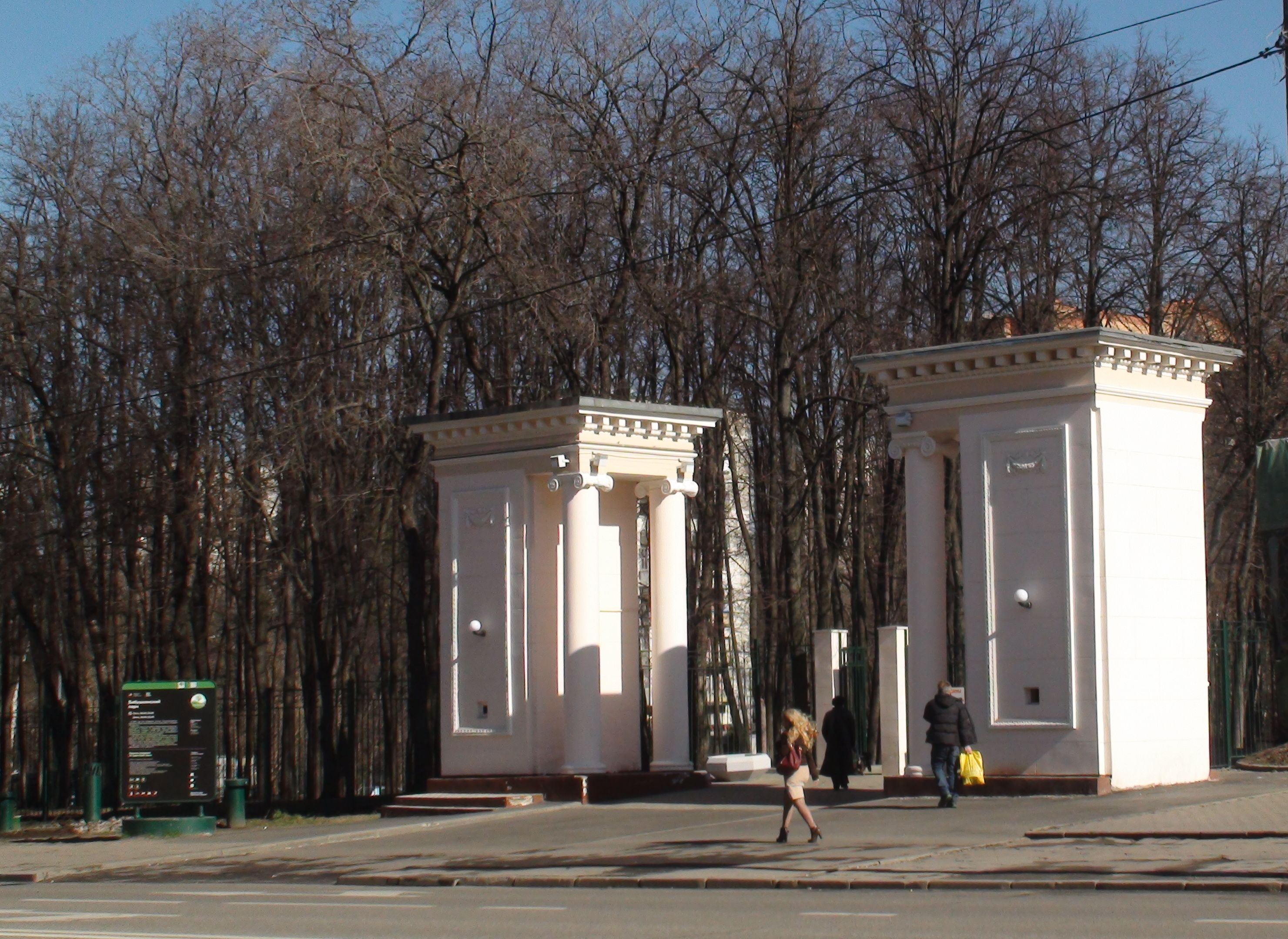 Бабушкинский парк Москва Бабушкинский район